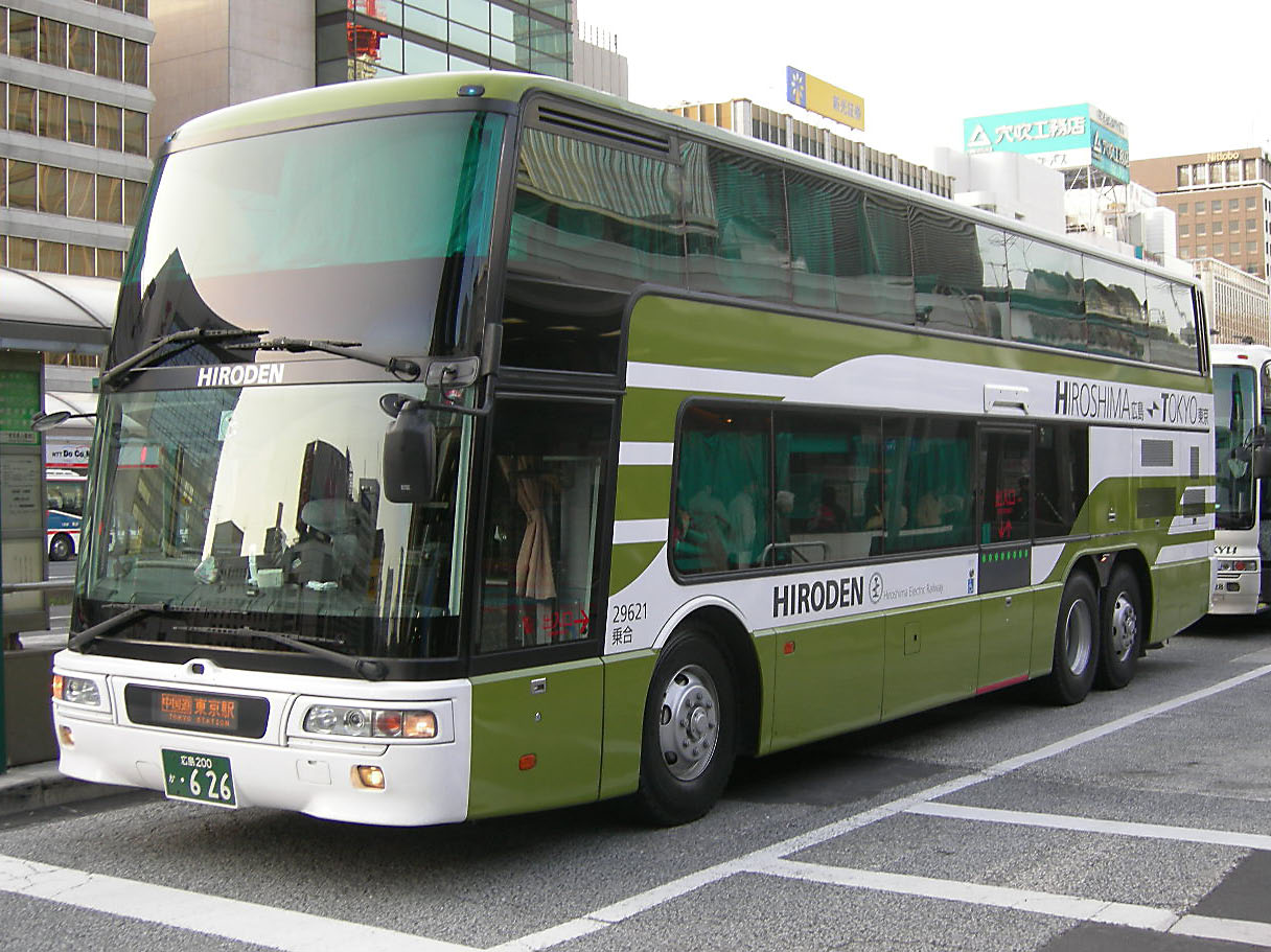 Hiroshima dentetsu bus No.29621,Mitsubishi Fuso Aeroking(MU612TX) Tokyo-Hiroshima highwaybus"Newbreeze"